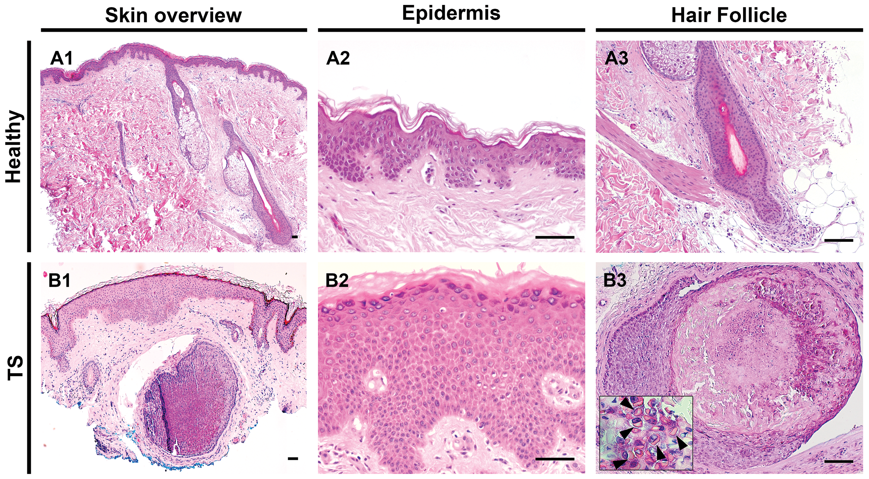 Overview of histological findings in trichodysplasia spinulosa, a skin condition caused by trichodysplasia spinulosa polyomavirus (TSPyV) found in immunocompromised individuals. Top row (A1-A3) shows healthy control; bottom row (B1-B3) shows TS skin. Low-magnification-power overview (A1, B1); high-power representative examples of epidermis showing thickening of the skin (acanthosis) in TS (A2, B2); high-power representative examples of hair follicles showing enlarged and dysmorphic appearance in TS (A3, B3). Inset in B3 shows characteristic eosinophilic protein granules, probably trichohyalin (arrowheads). H&E stain. Scale bars are 100µm. Figure 1 from: Kazem S, van der Meijden E, Wang RC, Rosenberg AS, Pope E, et al. (2014) Polyomavirus-Associated Trichodysplasia Spinulosa Involves Hyperproliferation, pRB Phosphorylation and Upregulation of p16 and p21. PLoS ONE 9(10): e108947.